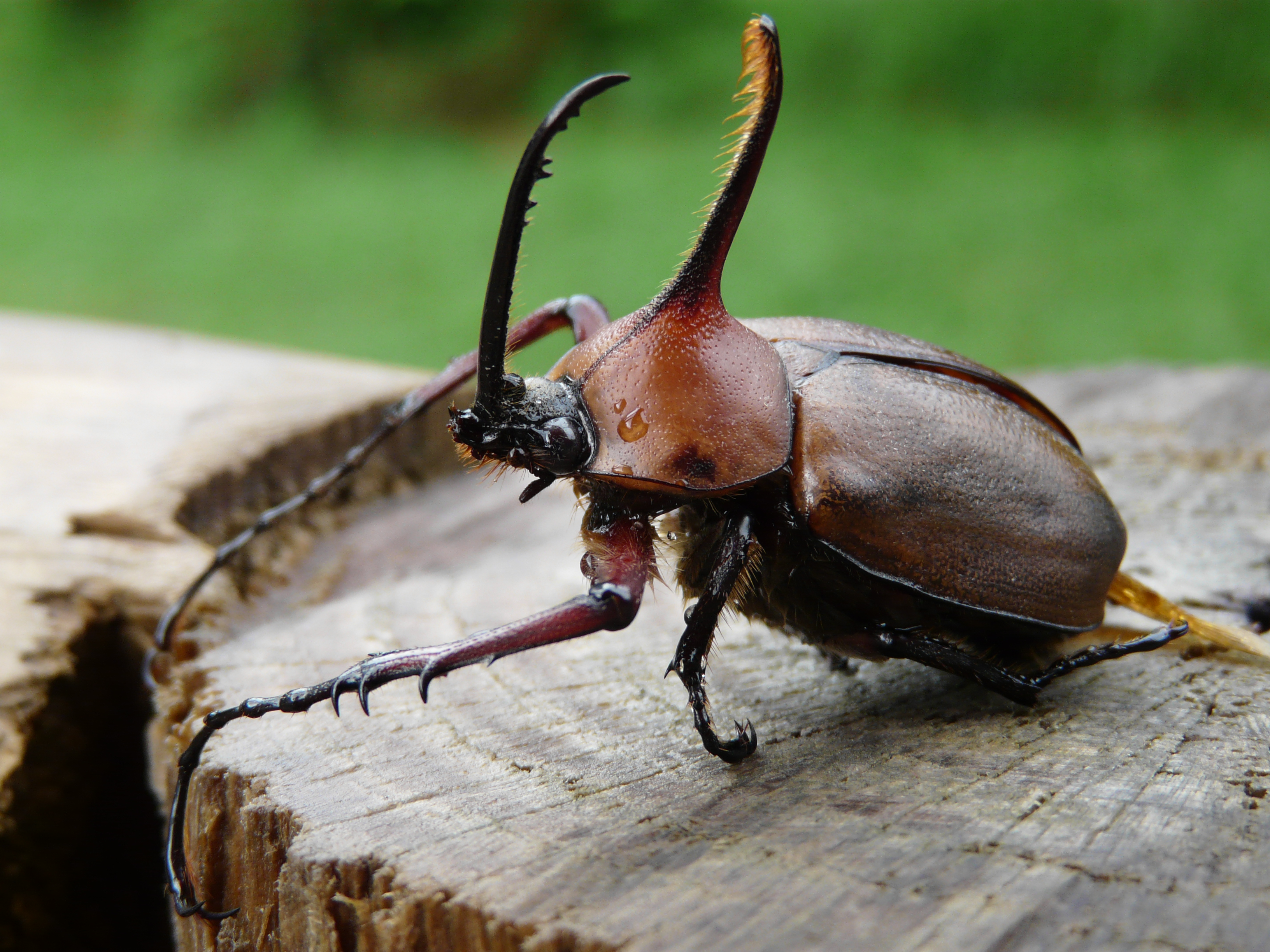 Golofa Aegeon